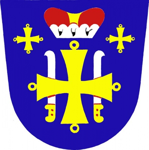 Křižánky CoA CZ